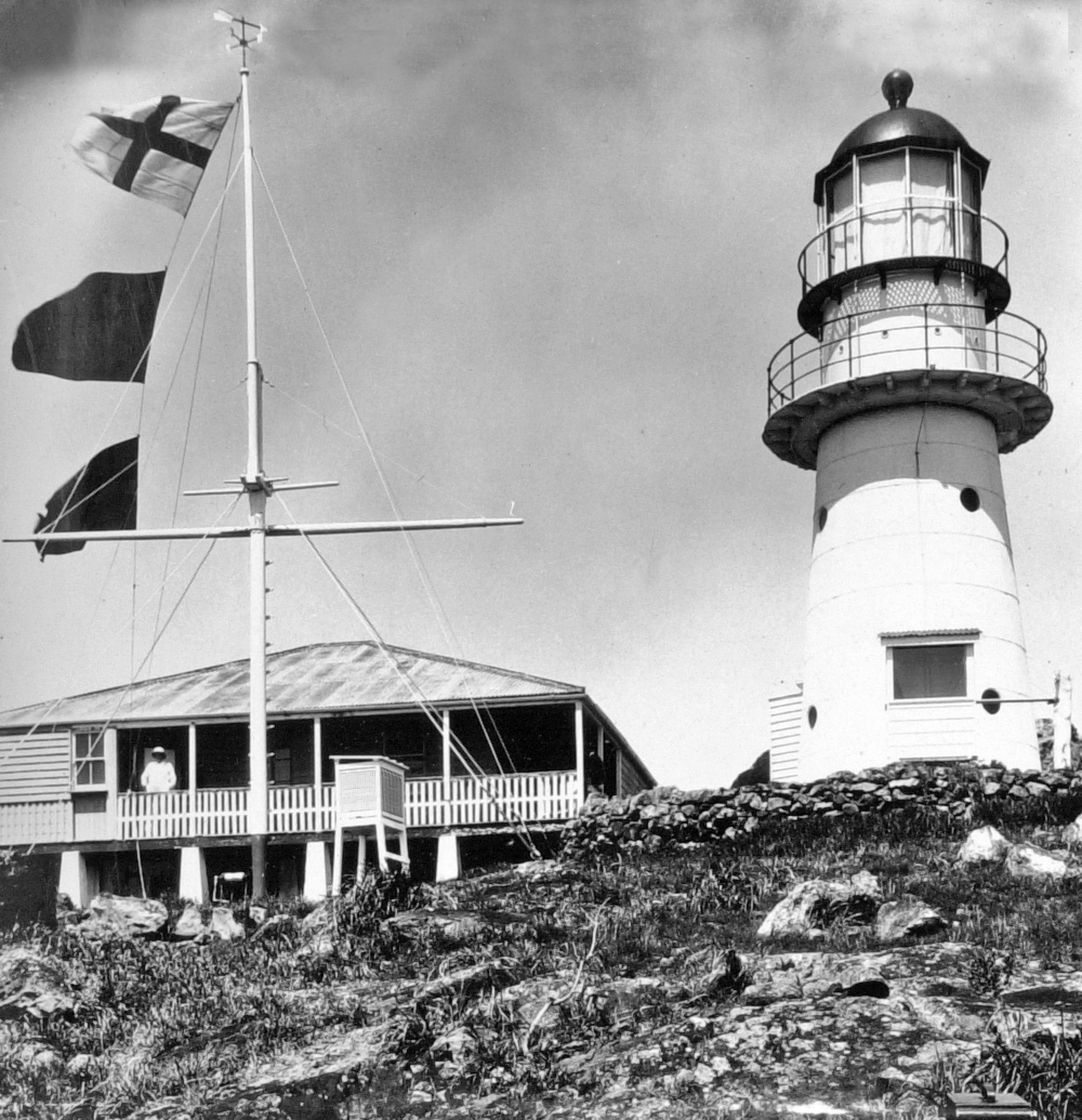 Double Island Point Lightstation, Cooloola Shire, c 1931